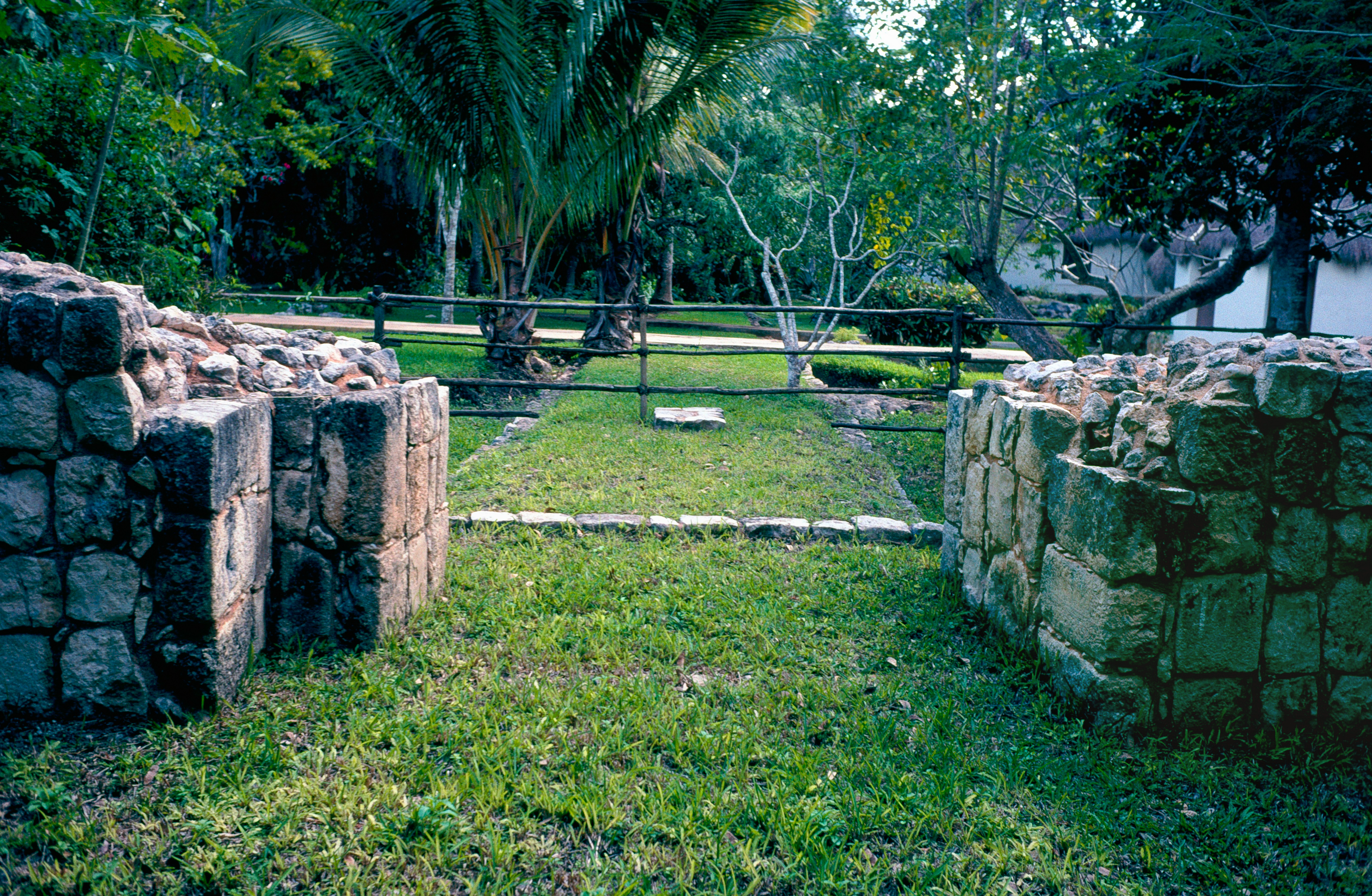 Chichen Itza, Yucatan, Mexico: gate in the wall of the Great Platform